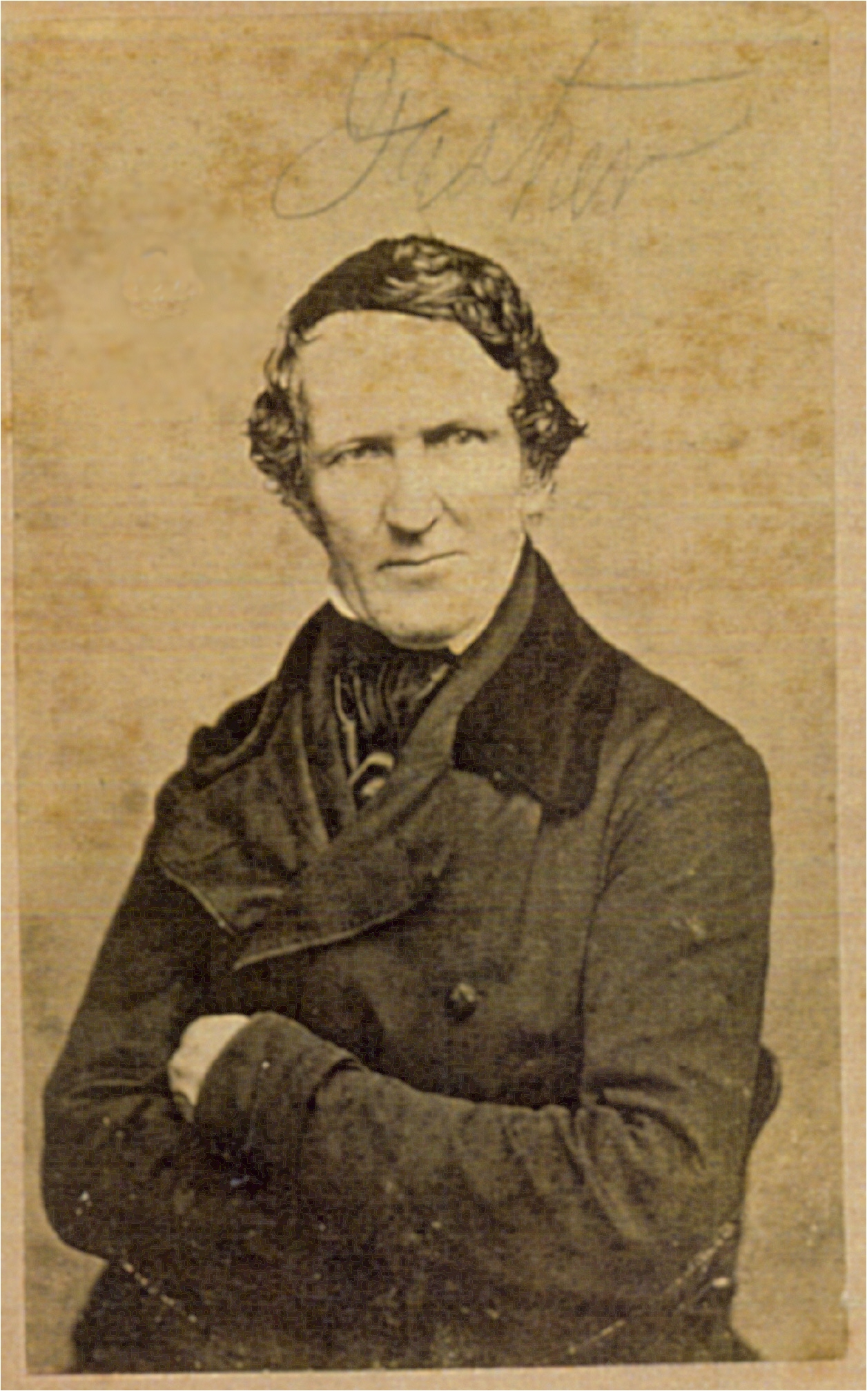 Photo of Alvan Fisher, artist